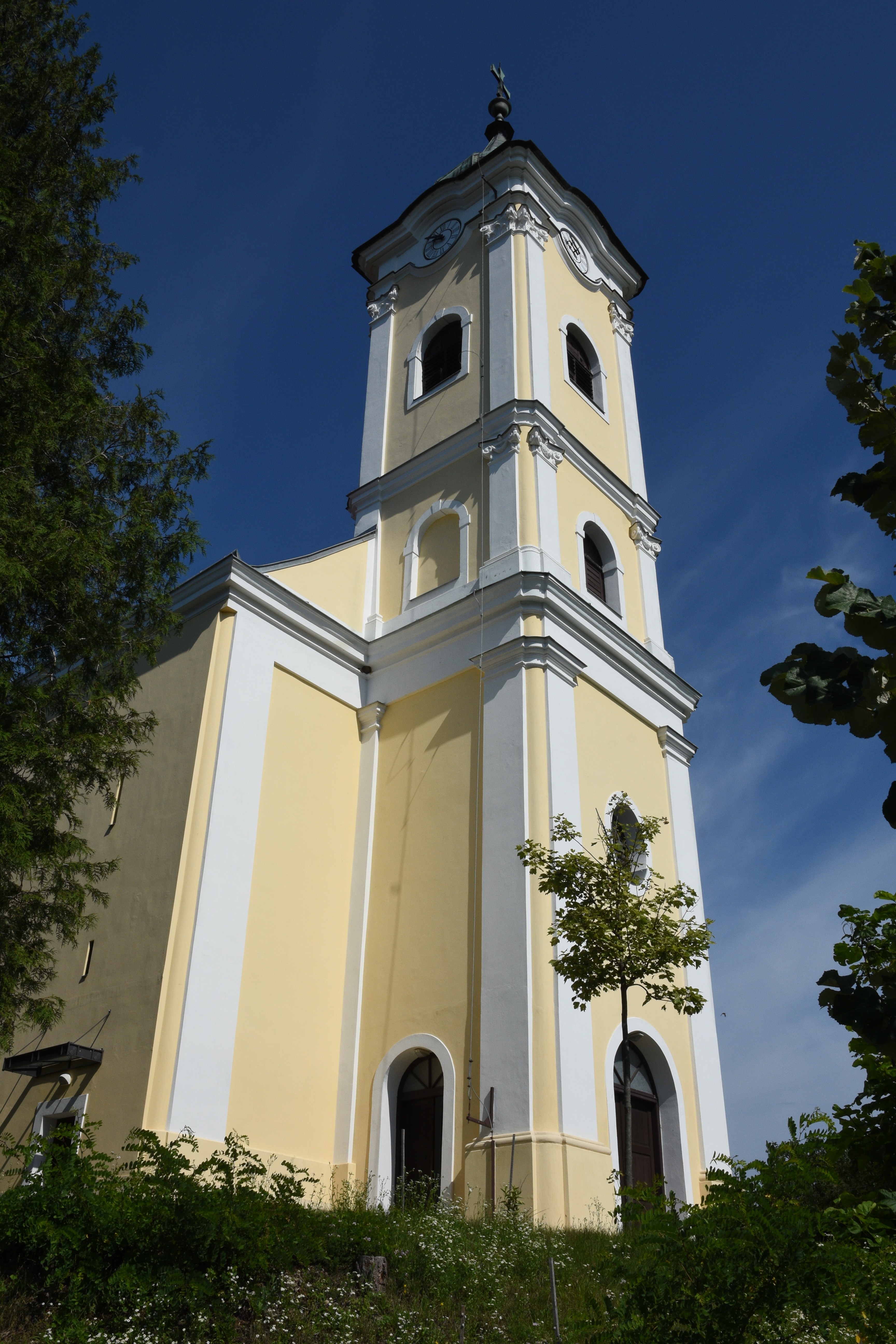 Roman Catholic Church in Zalaszentbalázs